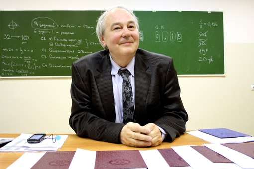 Photo of Boris Kondakov